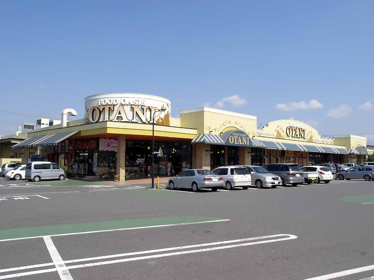 Food Oasis Otani, one of supermarket in Tochigi prefecture, Japan.